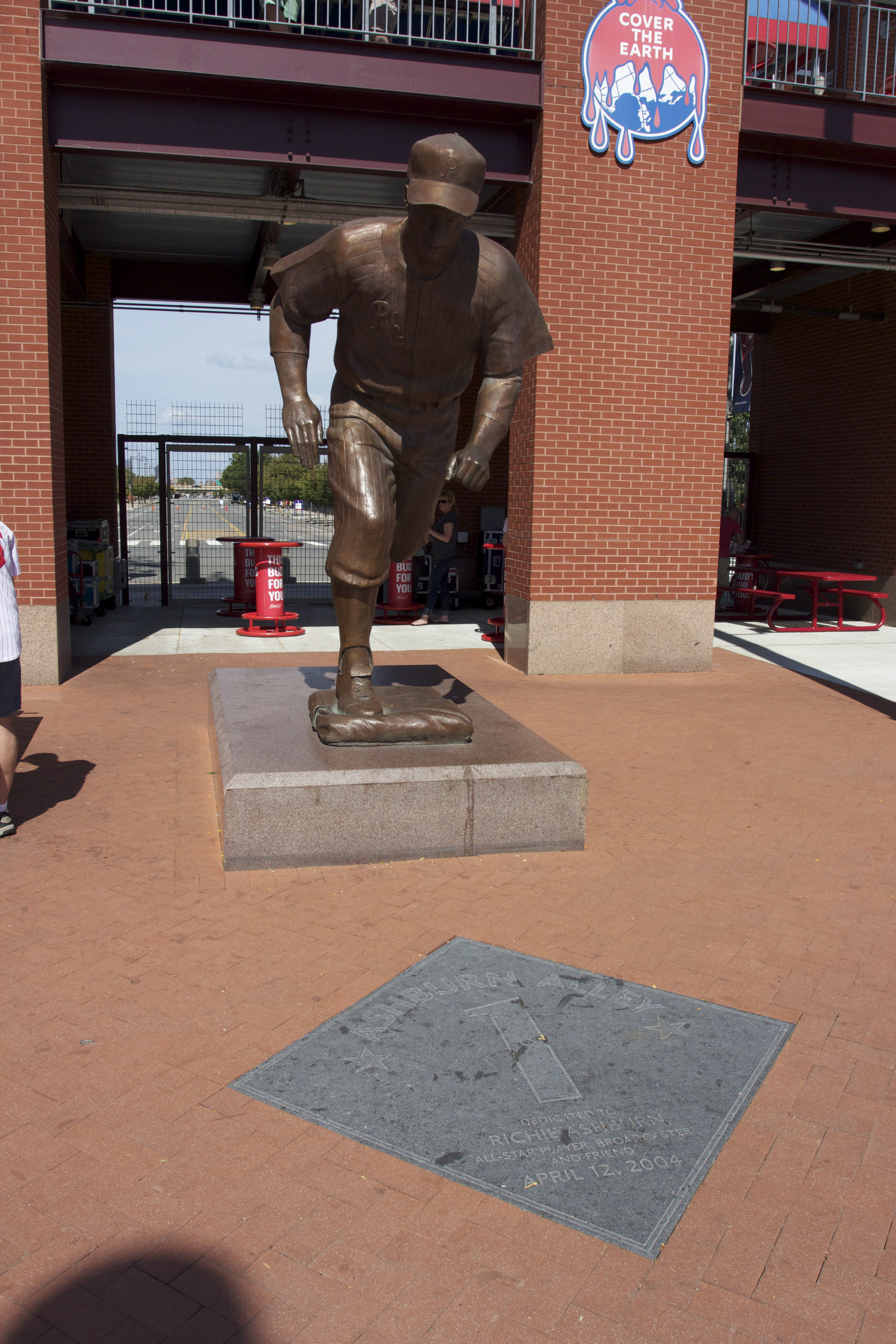 Philadelphia Phillies vs. Los Angeles Dodgers, 9/21/17